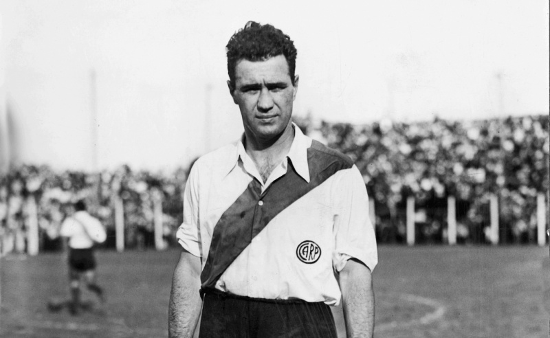 River Plate player Carlos Peucelle.